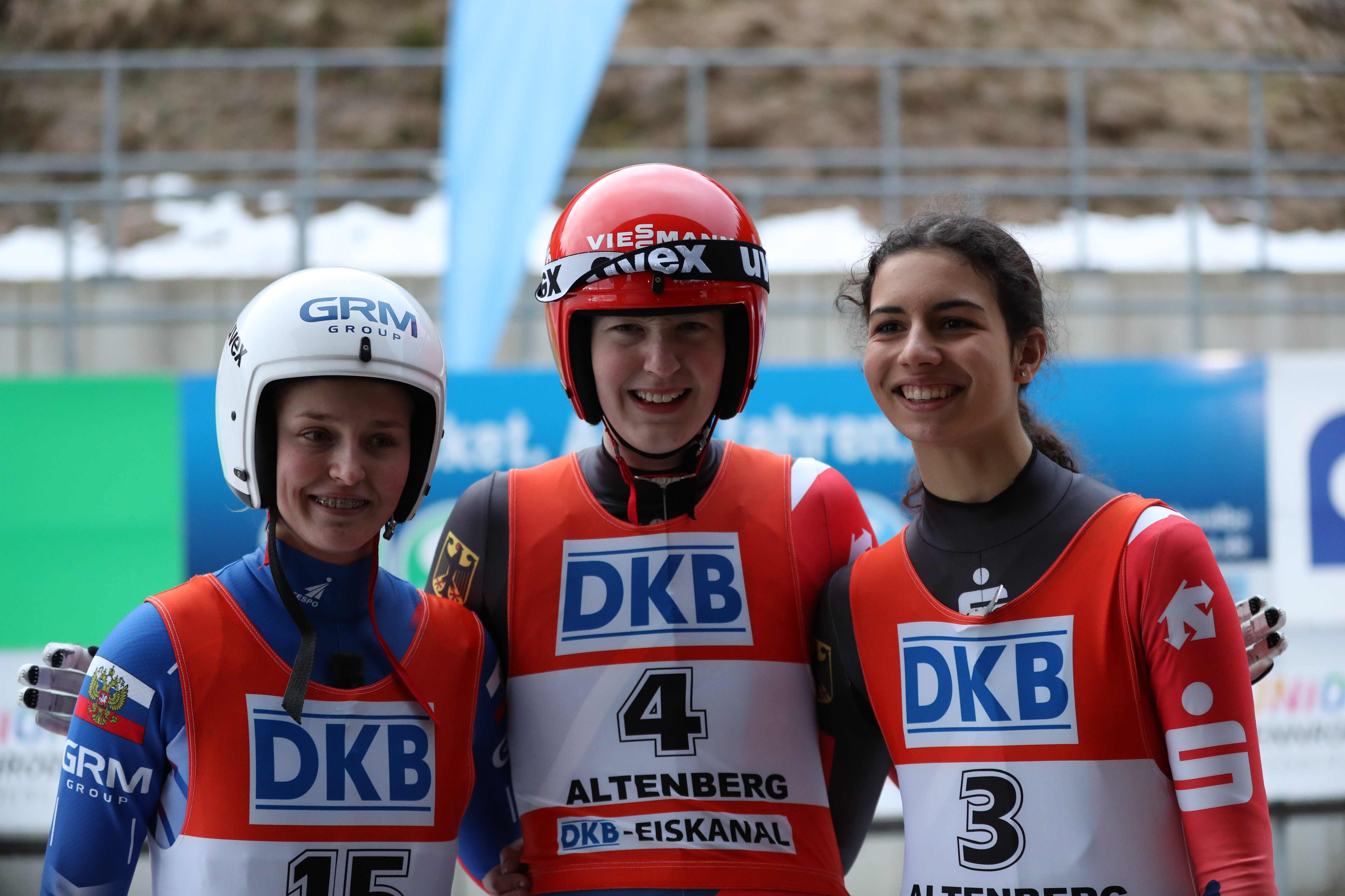 33rd Junior World Championship Luge, Altenberg 2018: Tatiana Tsvetova, Jessica Tiebel, Jessica Degenhardt